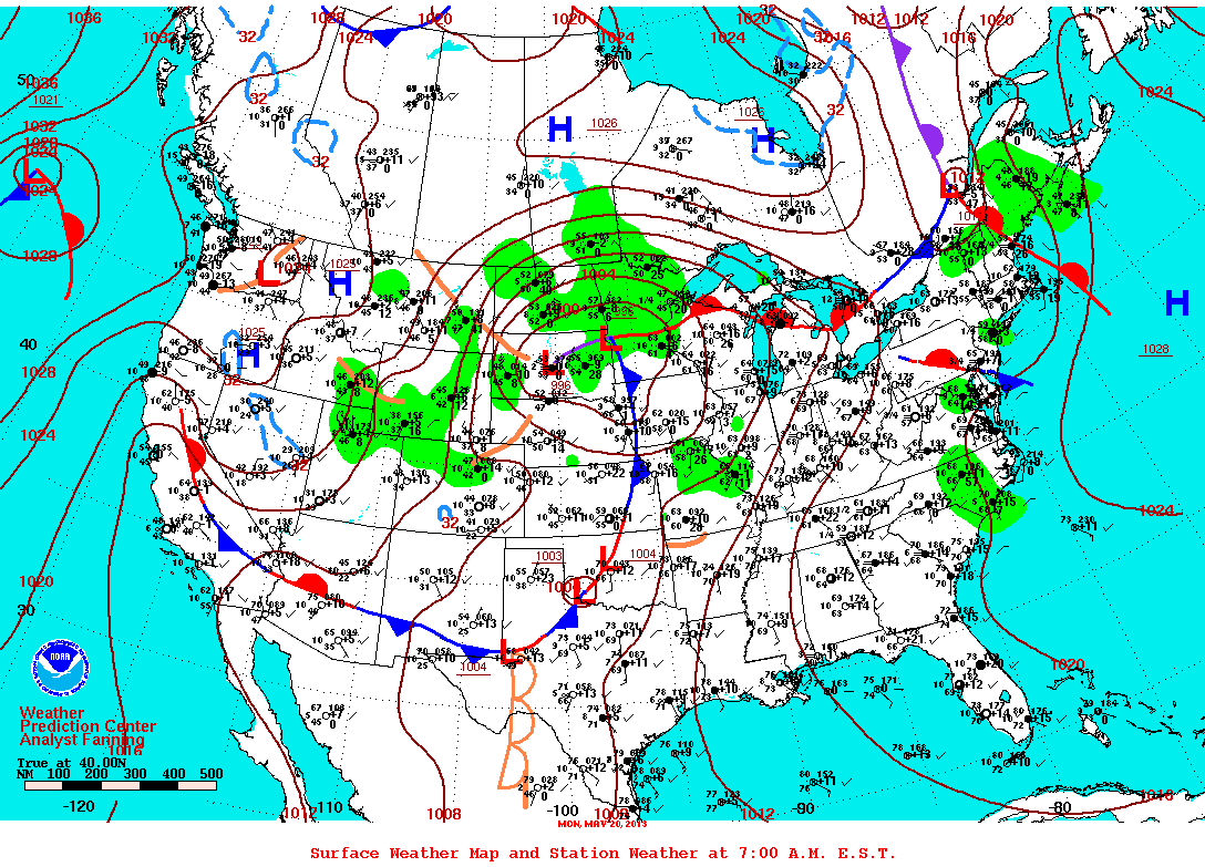 A surface weather map for 20 May 2013.